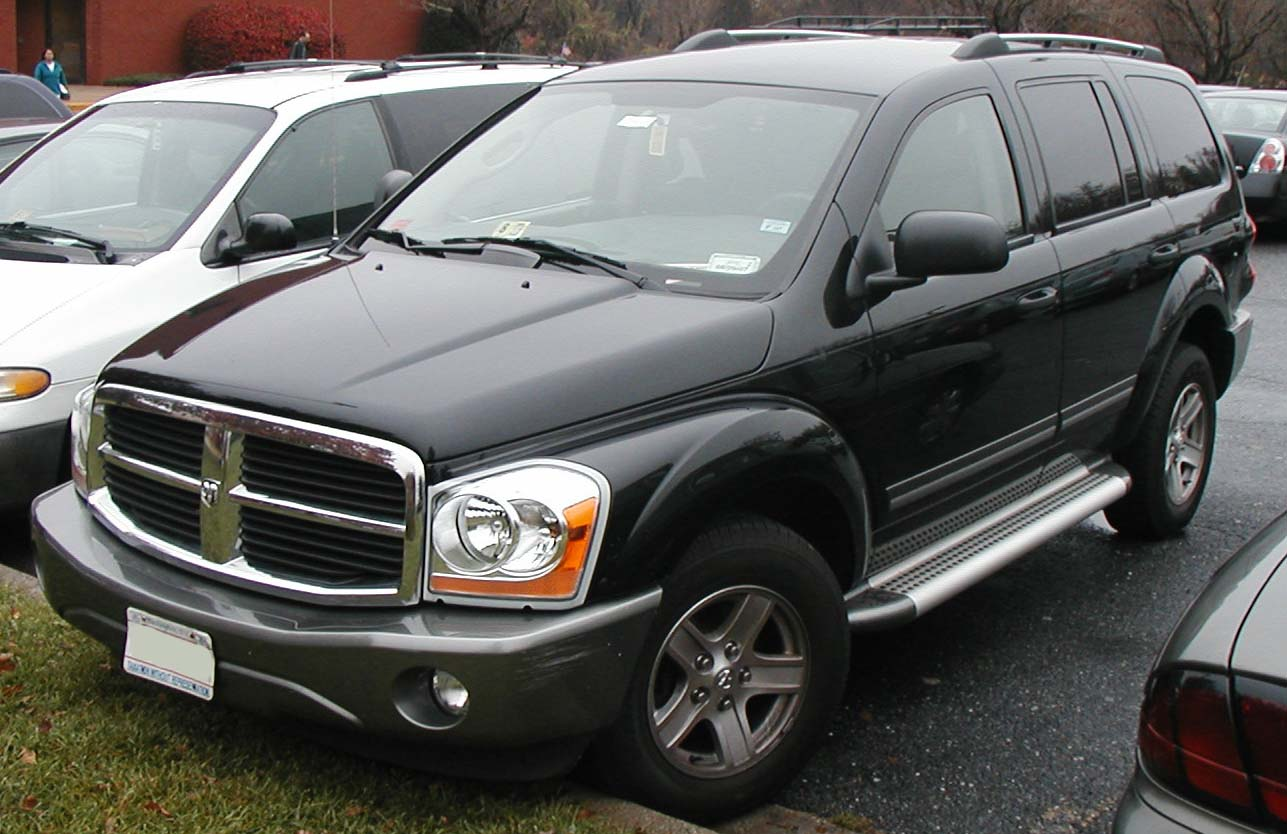 2004-2006 Dodge Durango photographed in USA.